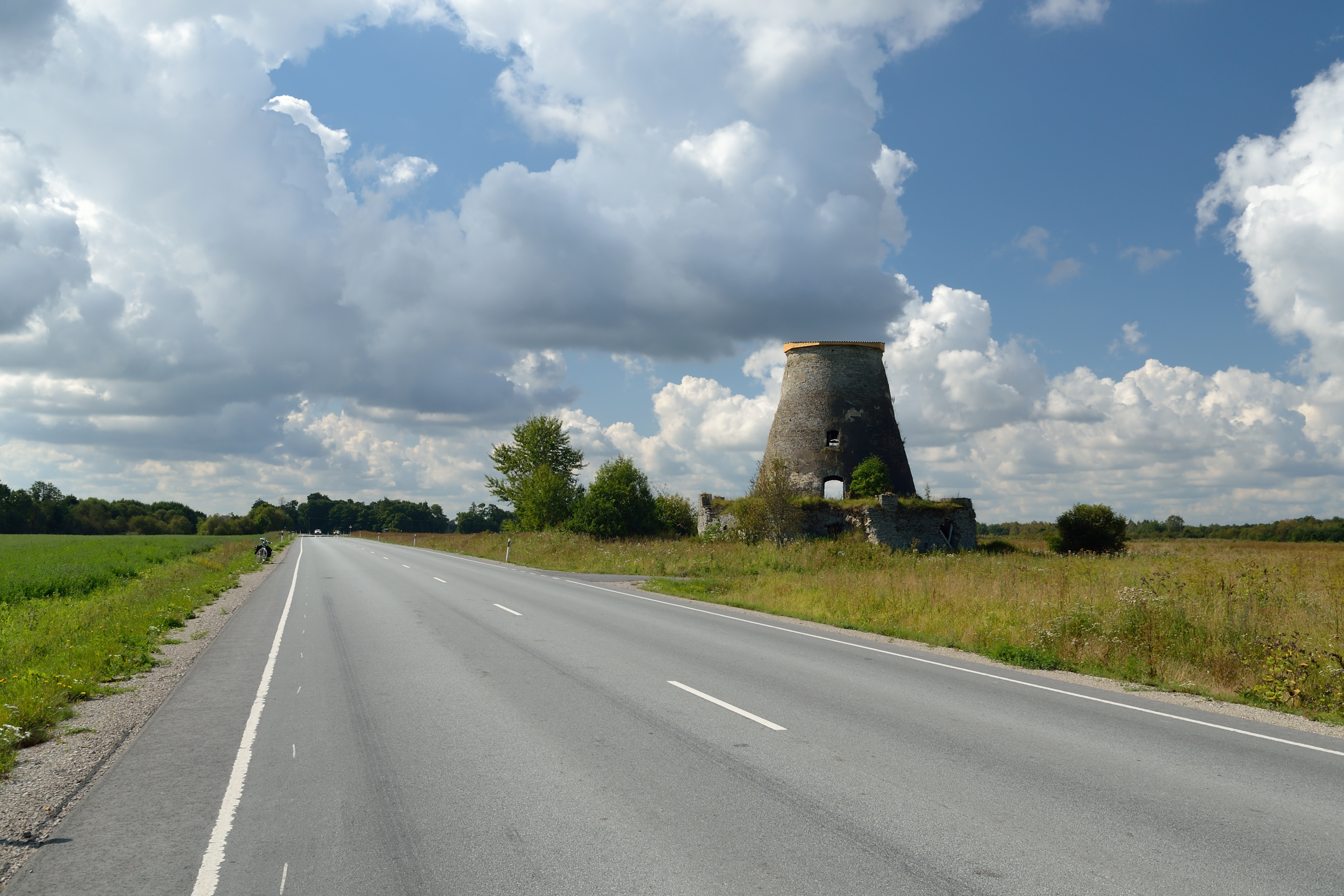 Põdruse–Kunda–Pada road in Andja village (Estonia)